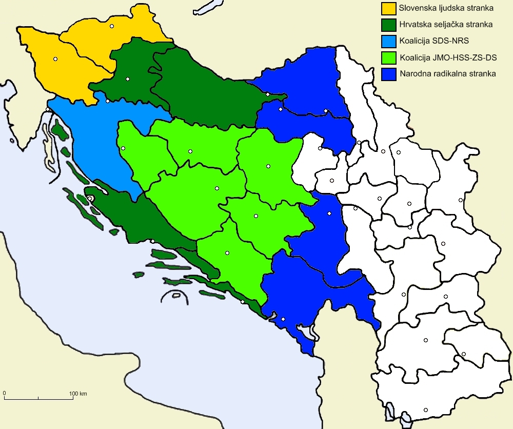 Results of the elections for the oblasts assemblies in 1927 per oblasts.